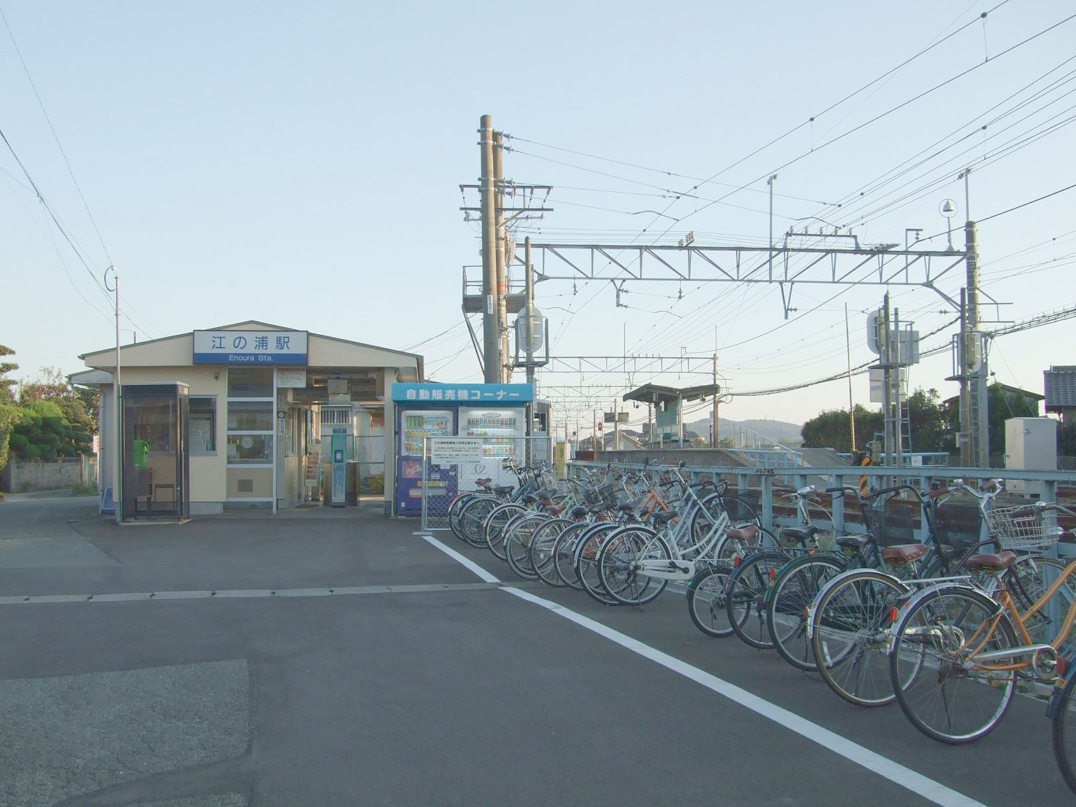 Enoura Station on Nishitetsu Tenjin Omuta Line.